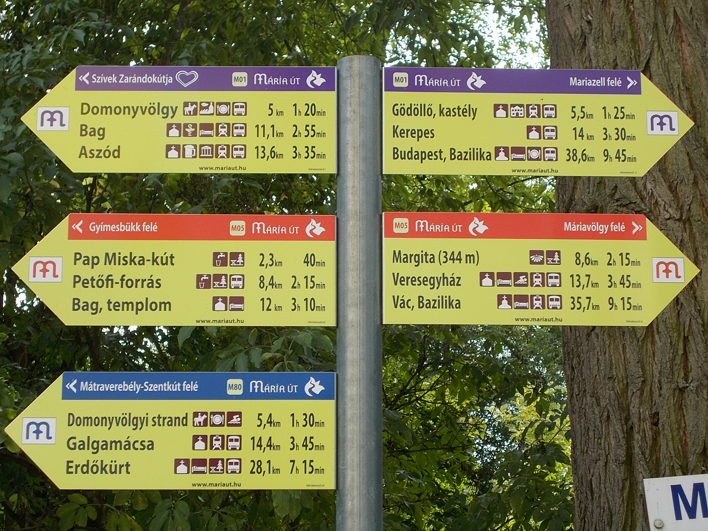 Pilgrimage site. Signs of the Way of Mary. - Máriabesnyő-Gödöllő